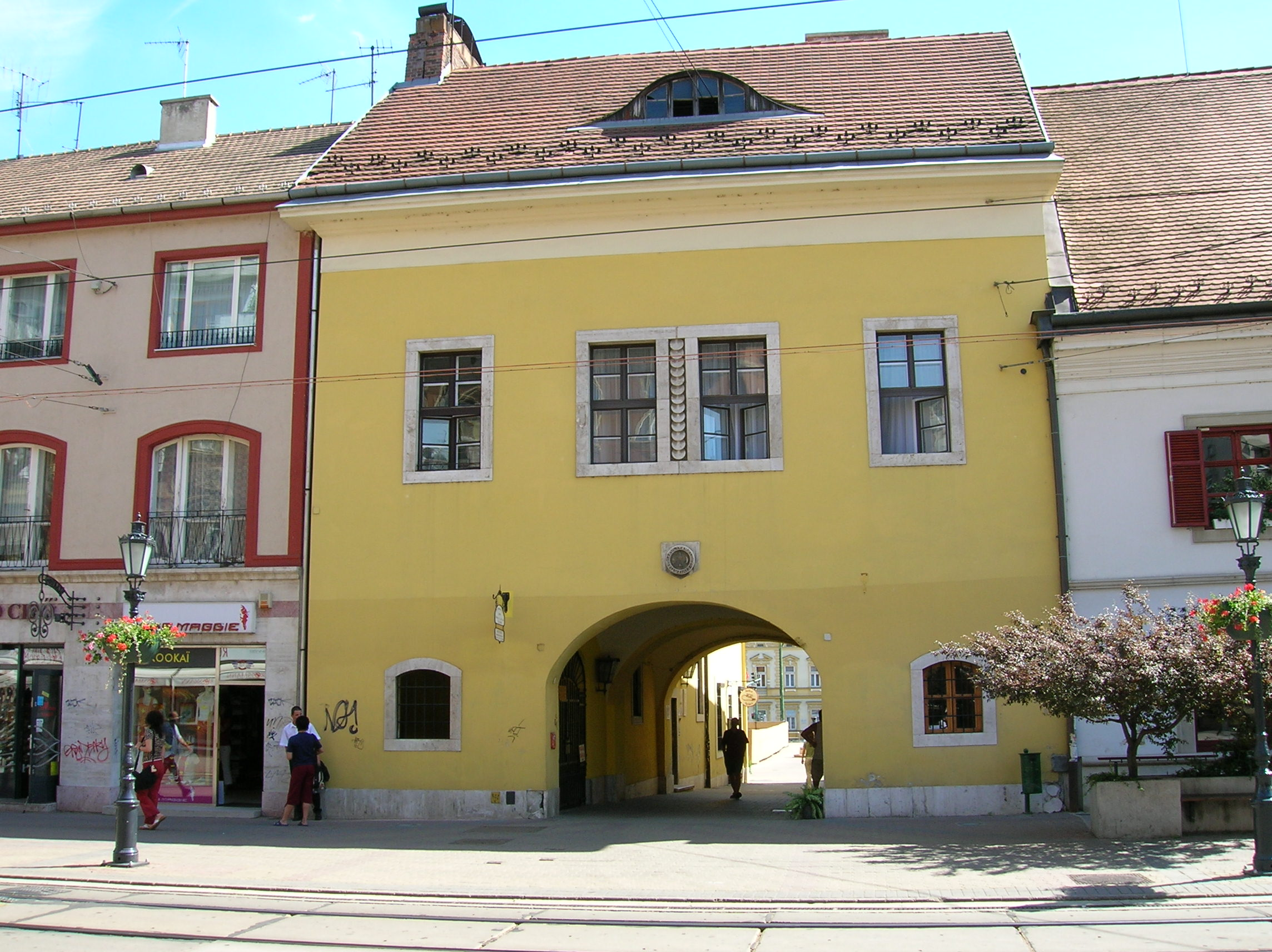 The "Sötétkapu" ("dark gate") in Széchenyi street, Miskolc, Hungary. Used to be the town gate in the Middle Ages. The house was the headquarters of Francis II Rákóczi during the revolution he led in the early 18th century.